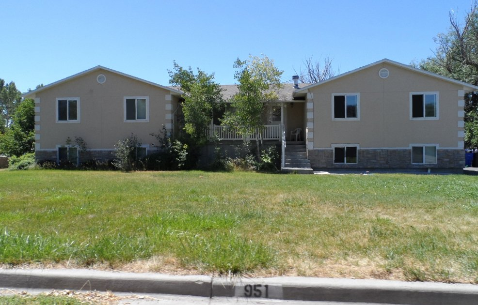 The Brown's house in Lehi, Utah. Patriarch Kody Brown has four wives and 17 children as of 2010, and was featured on TLC television network's program Sister Wives. The series portrayed the lifestyle of a polygamist family; Brown is only legally married to one woman.